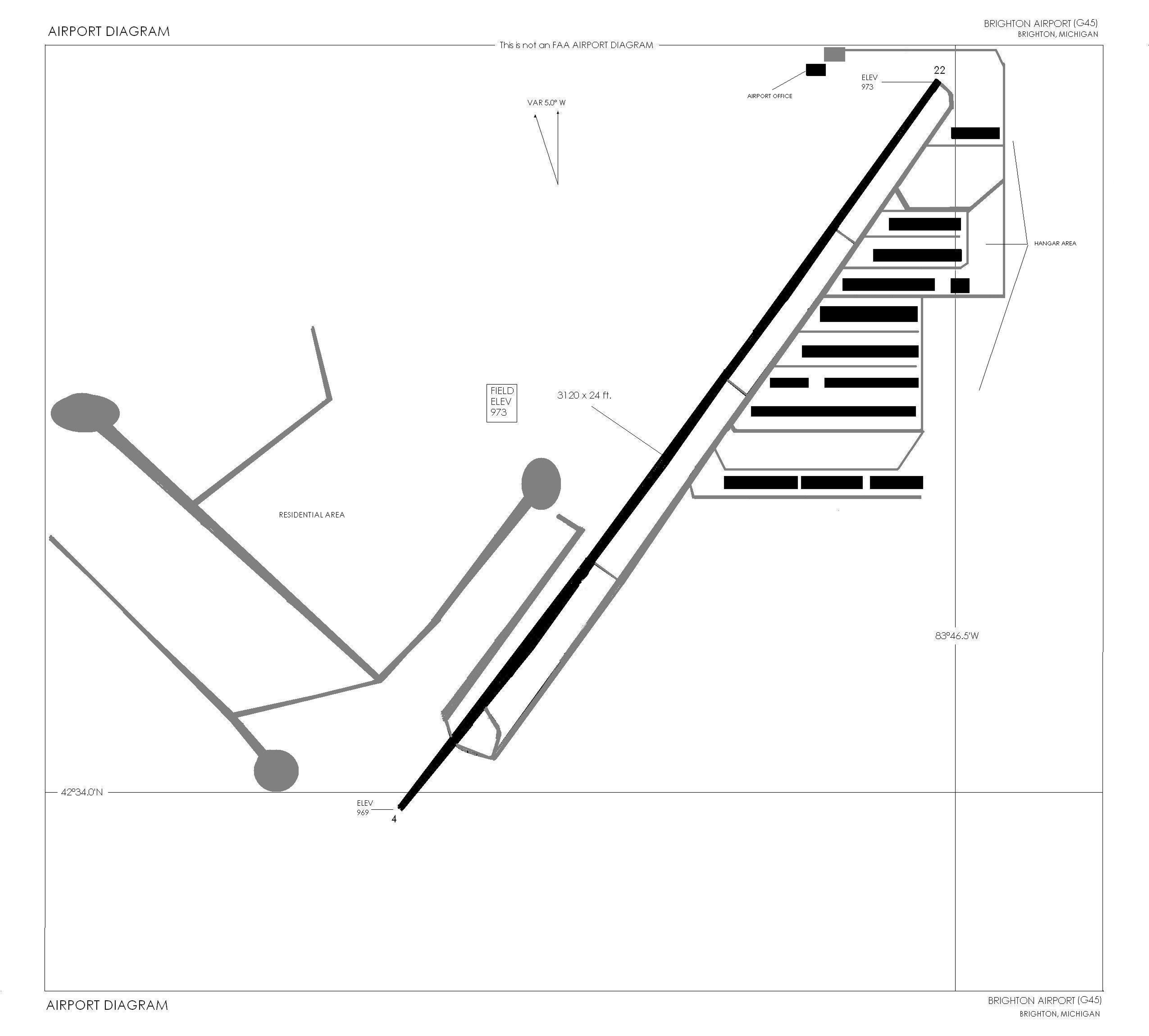 Brighton Airport Diagram, Brighton Michigan. NOTE: FAA data was used to create this diagram, but it was not produced by the FAA. It is a facsimile of an FAA Airport Diagram.